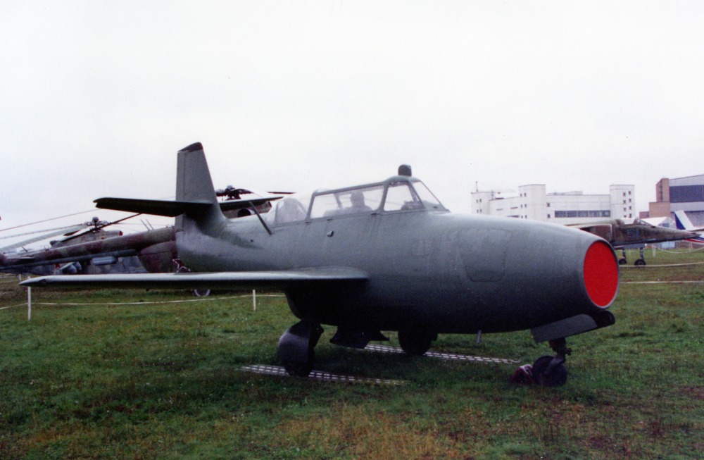 PictionID:42251938 - Title:Yakovlev Yak-23 Yakovlev Yak-23UTI Khodinka Air Force Museum Sep93 2 - Catalog:15_003219 - Filename:15_003219.tif - ---- Image from the Charles Daniels Photo Collection album "Moscow Air Museums" which contains images Mr. Daniels took while visiting Russia----PLEASE TAG this image with any information you know about it, so that we can permanently store this data with the original image file in our Digital Asset Management System.----SOURCE INSTITUTION: San Diego Air and Space Museum Archive